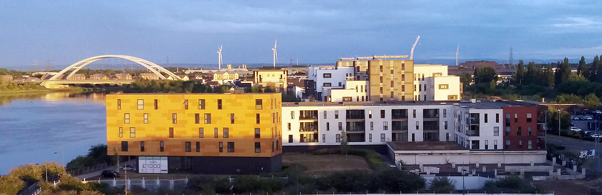 Newport, Wales. View from Newport Student Village.